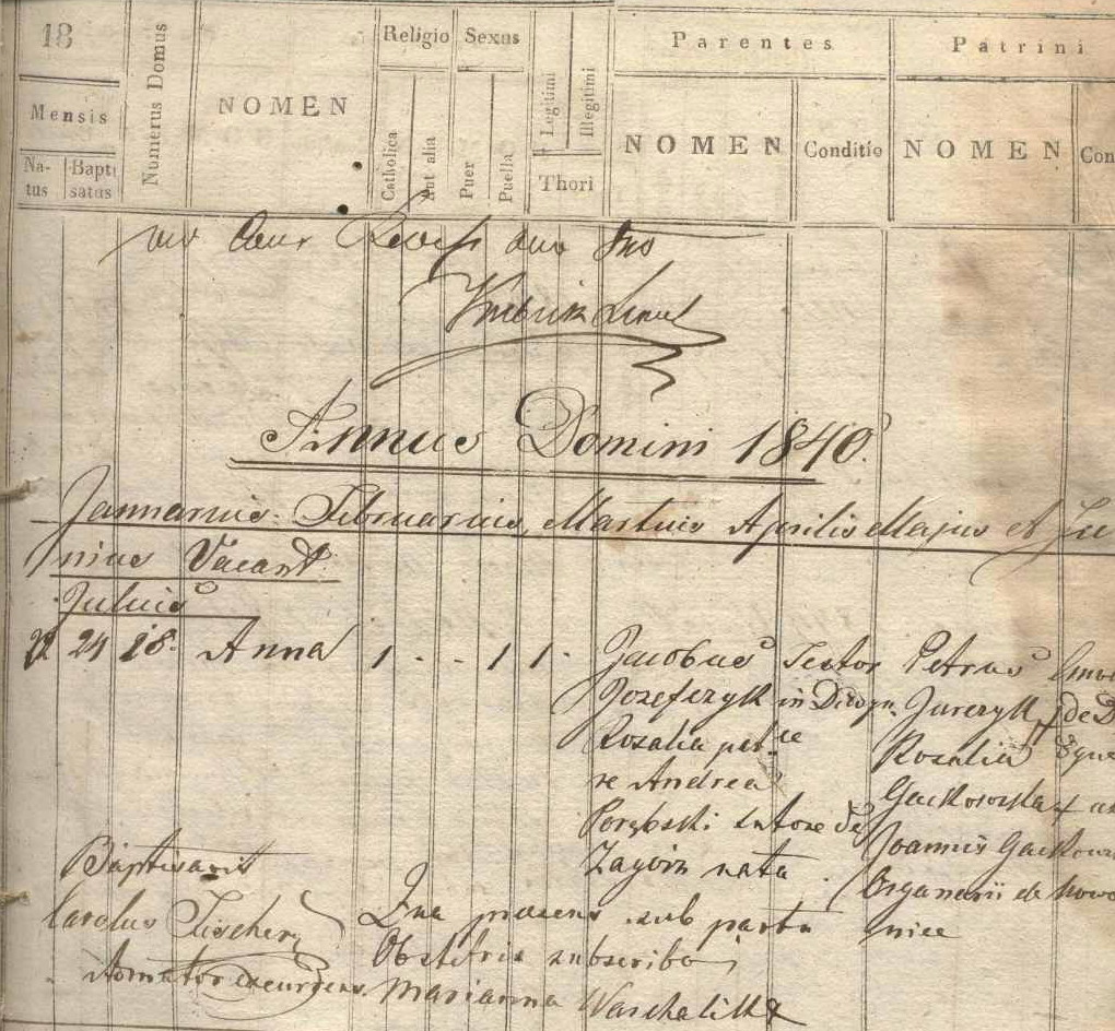 Liber Natorum, from latin parish, example of records